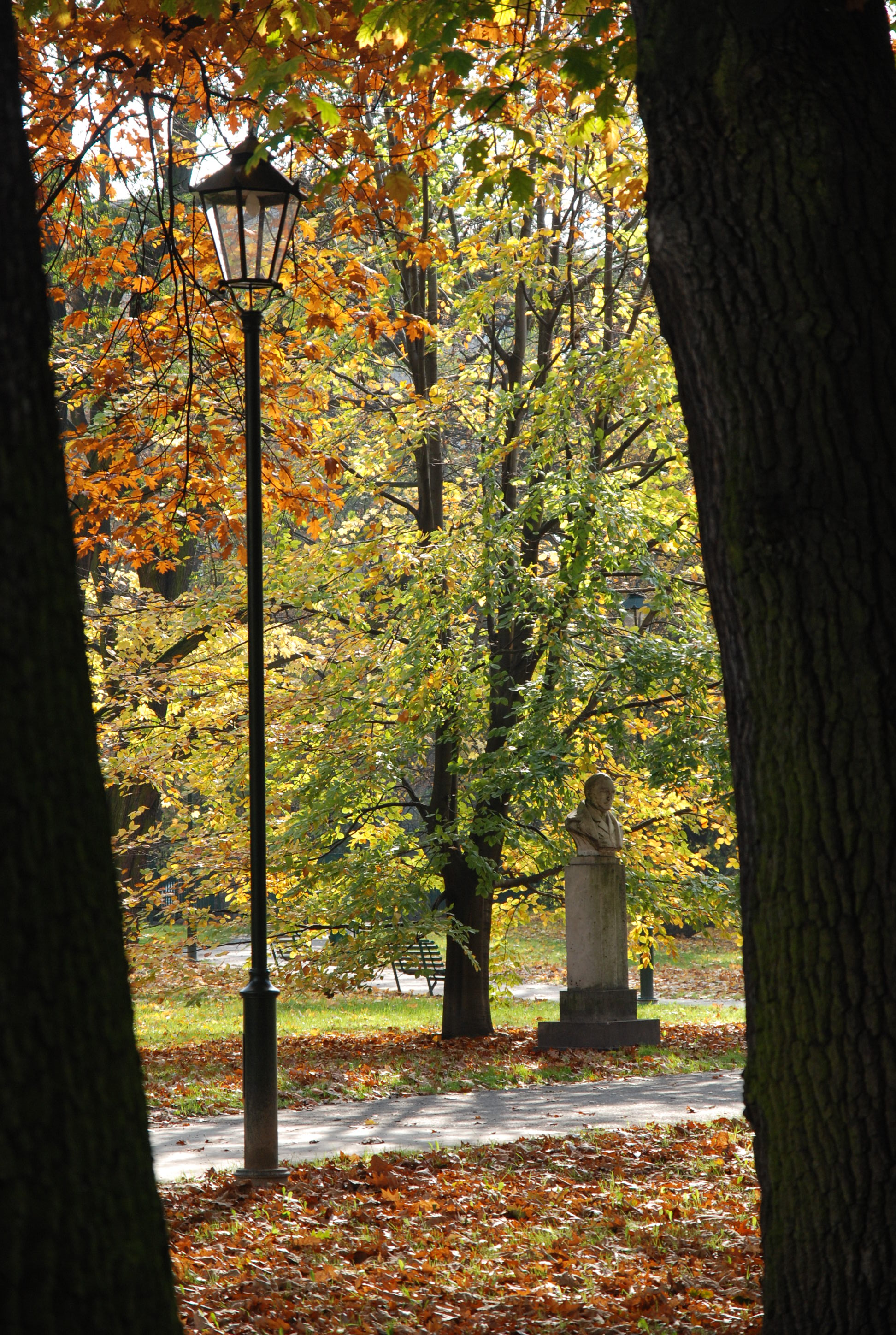 Henryk Jordan's Park, Krakow, Poland. Autumn 2008